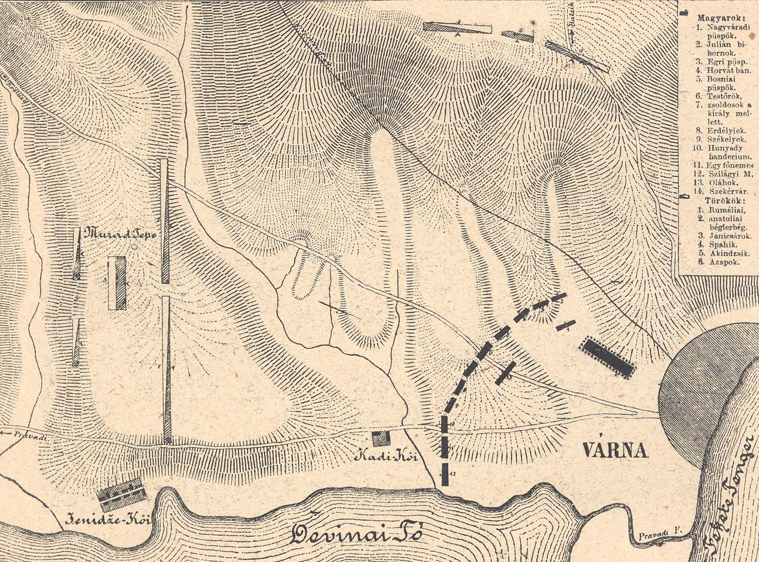 Battle of Varna (field)